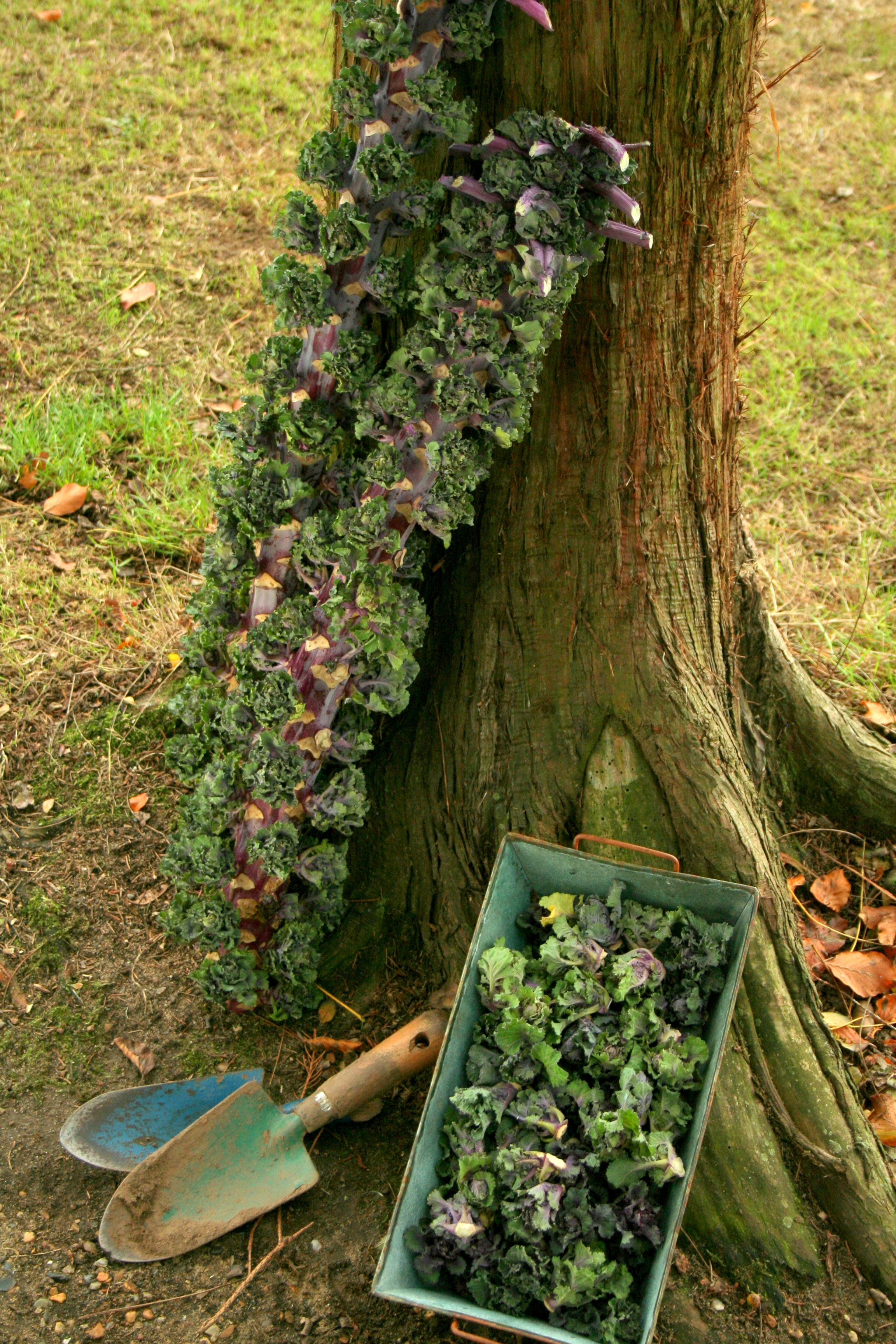 A stem of kalettes with a box of harvested "flowers"